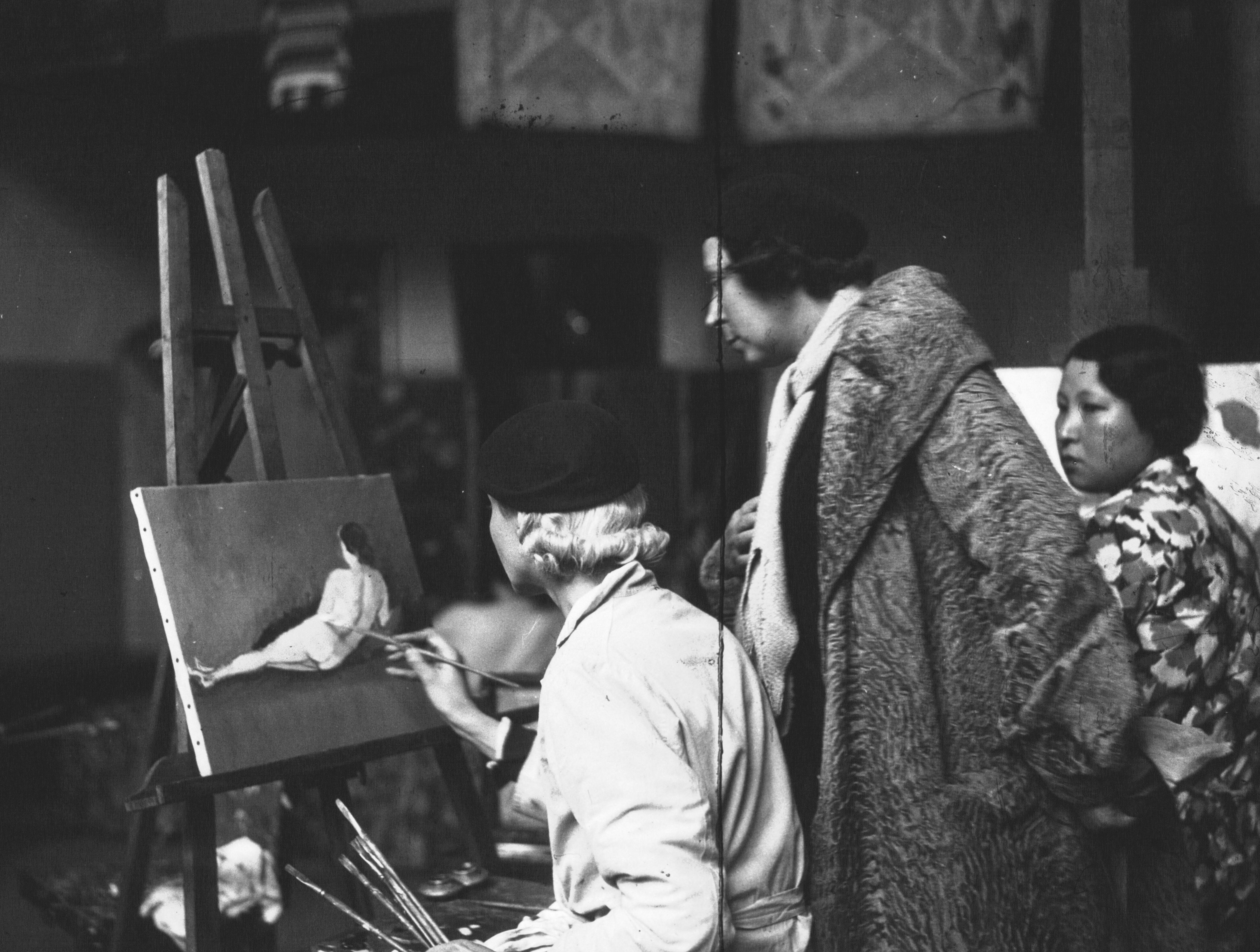 French painter Marie Laurencin (1853-1956) in her atelier with some of her students in 1932.